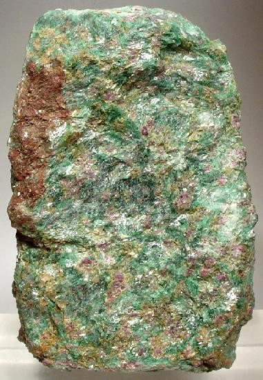 Corundum (Var.: Ruby), Muscovite (Var.: Fuchsite) Locality: Eswatini (Locality at ) Lustrous, platy, green fuchsite liberally covers massive ruby matrix on this classic, old-time specimen from South Africa. Fuchsite is the chrome-rich variety of muscovite, which has bright red fluorescence. The piece comes with a Hugh Ford label, a prominent United States dealer from the 1920s to early 1950s. Ex Carl Davis Collection. 6.9 x 4.5 x 2.2 cm